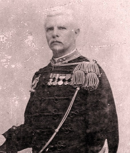 Generaal Boetje